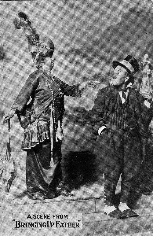 Postcard with scene from the 1914 play Bringing Up Father which featured the cartoon characters from the comic strip.